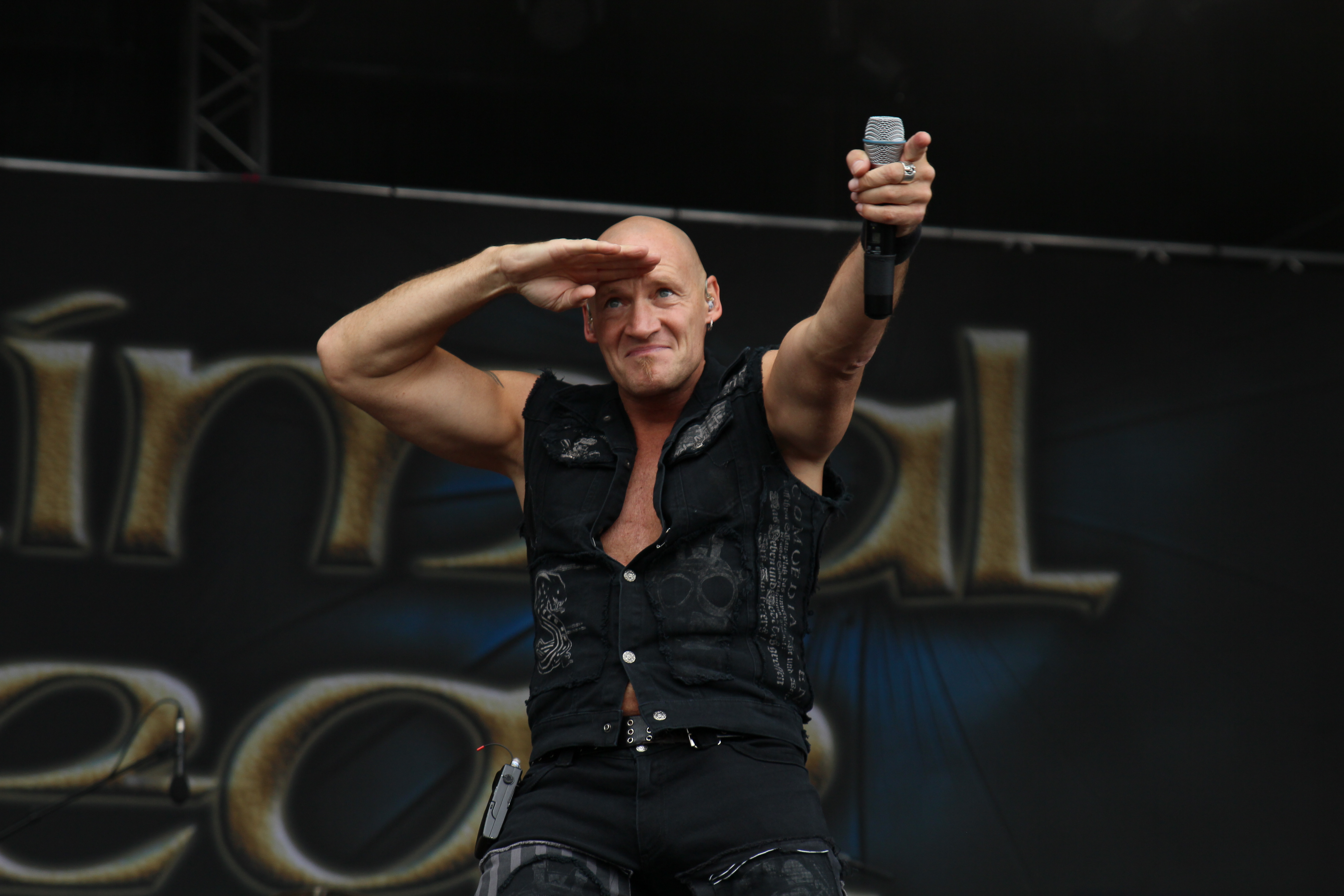 The German speed/power metal band Primal Fear at the Rockharz Open Air 2014 in Ballenstedt/Germany